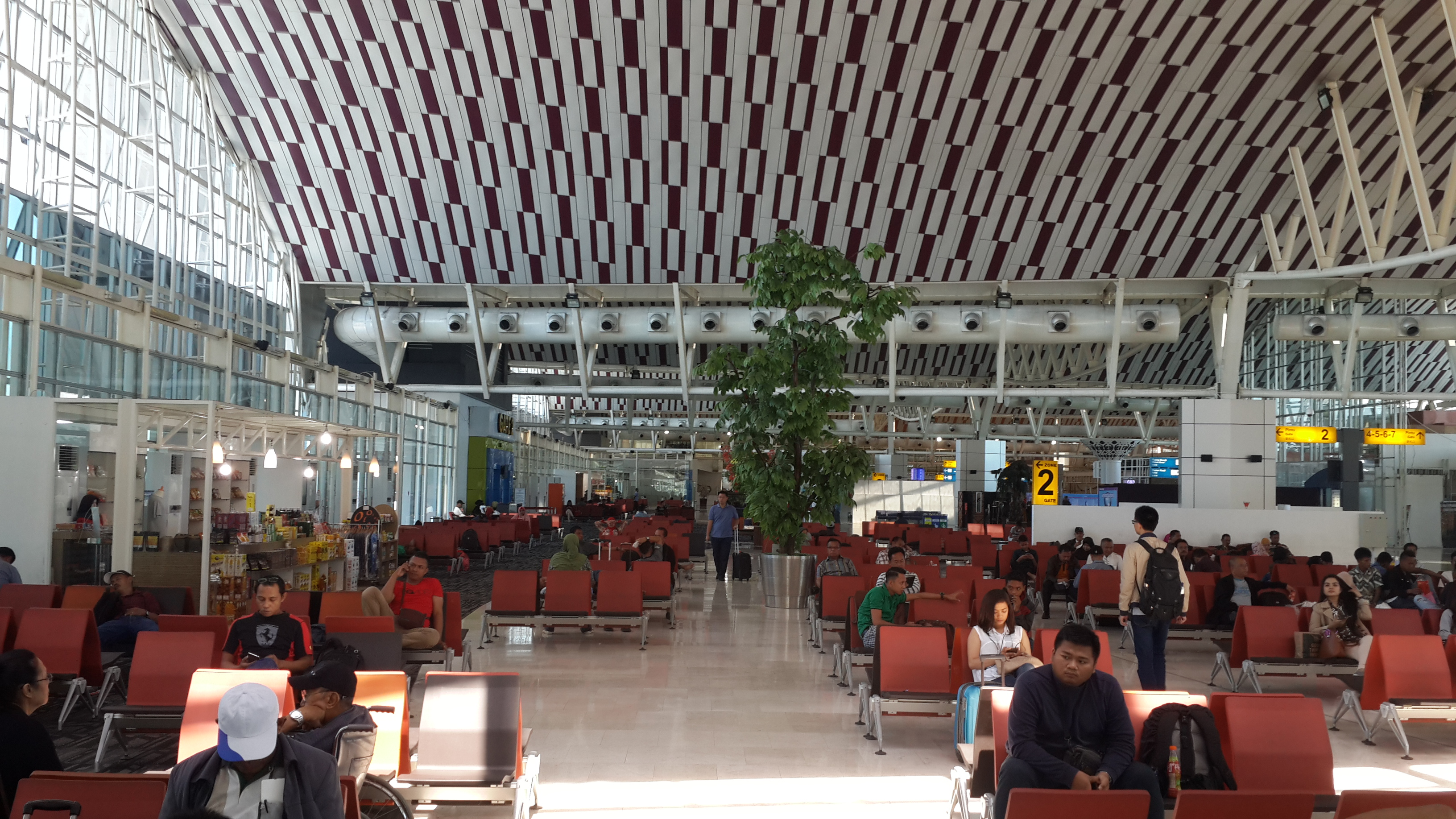 Departure terminal, Sultan Hasanuddin International Airport, Makassar, Indonesia